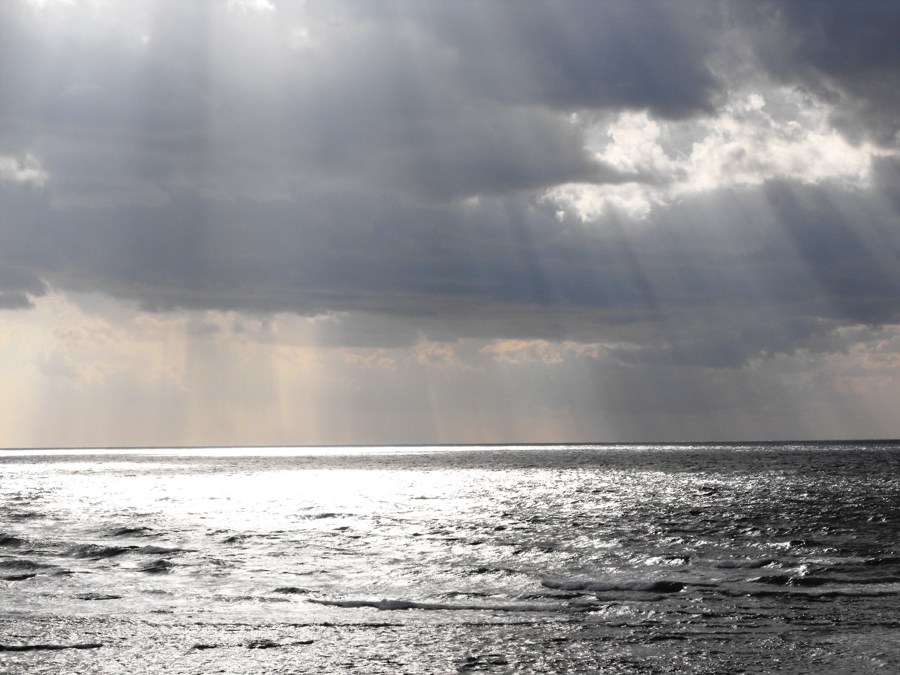 Tel Aviv, Geography of Israel